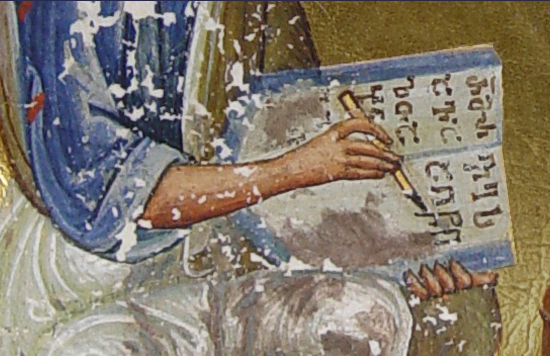 The Apostle. A fragment of an old Georgian miniature